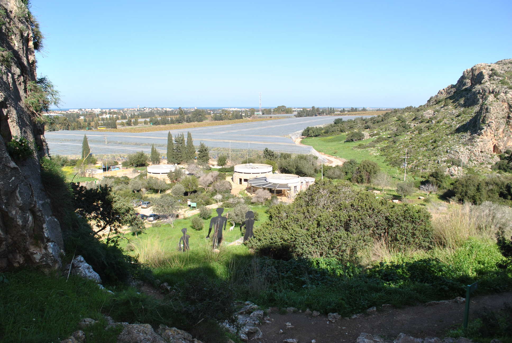 Nahal Mearot (Mount Carmel, Israel) - looking west to the coastal plain